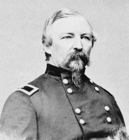 John P. Hatch, Bv't.-Maj. General.